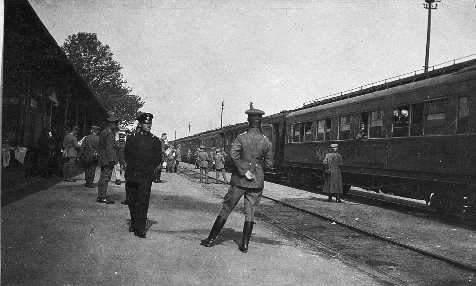 Balkanzug during WW I at the Nis railway junction on its way to Konstantinopolis